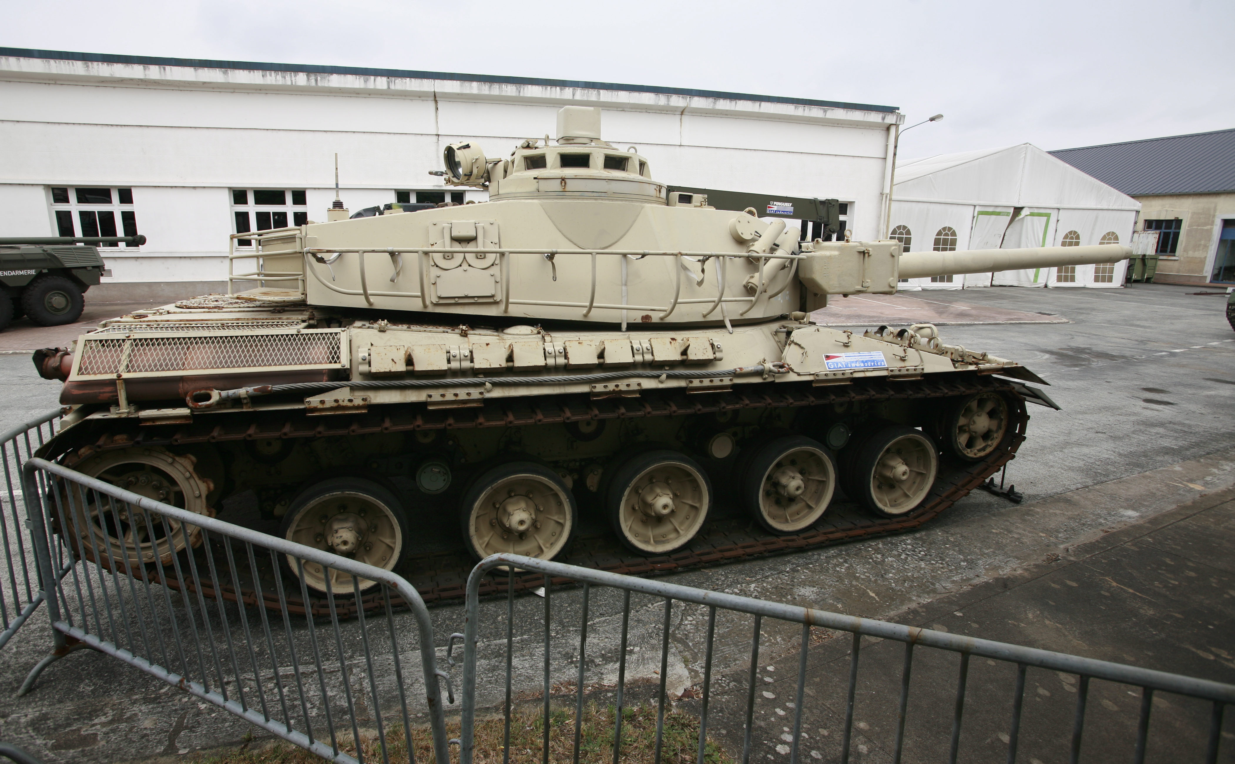 AMX-32. On display at Saumur Général Estienne museum.